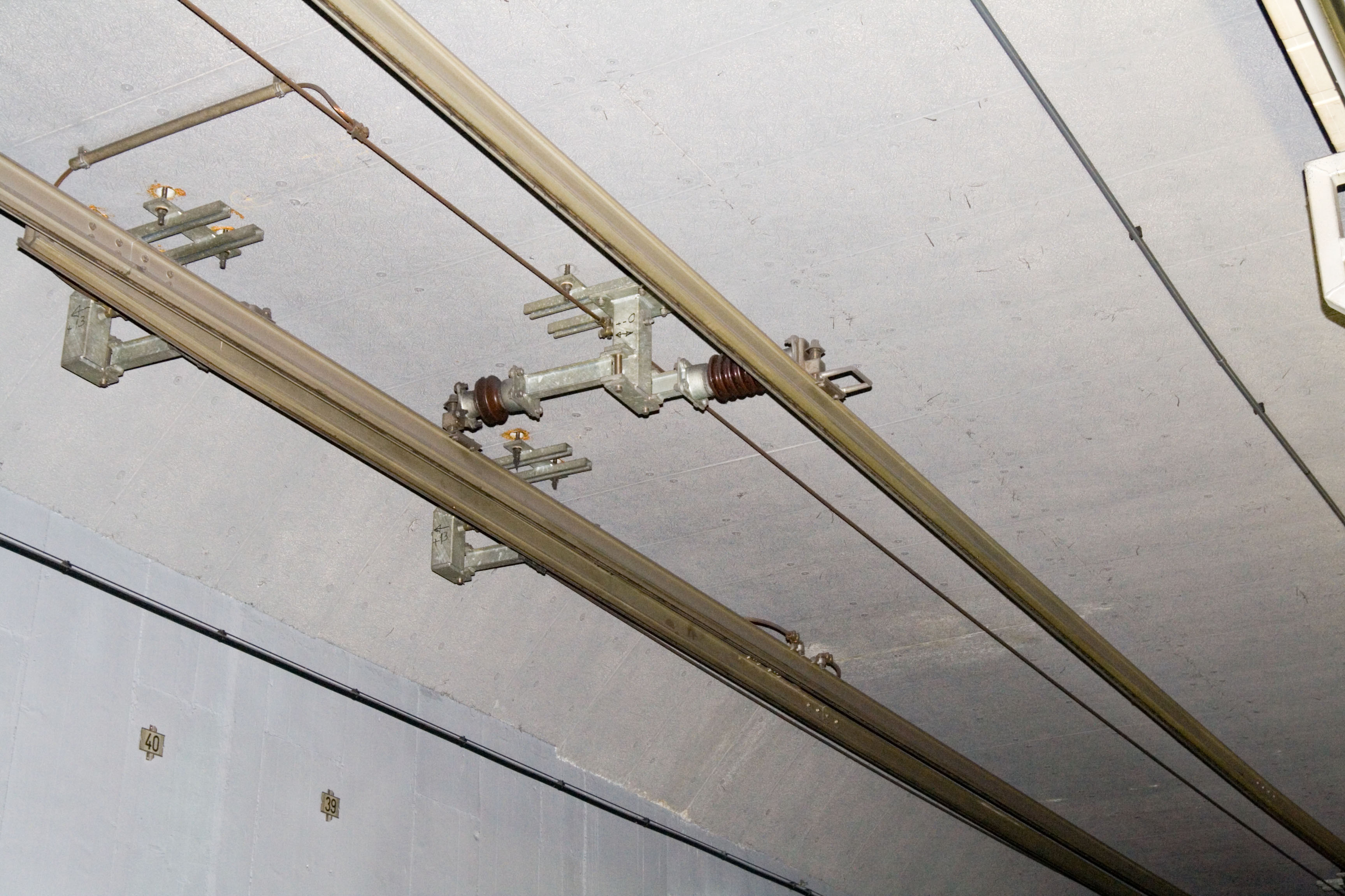 Two overhead conductor rails at Zurich Main Station track 2. Left: 1200 V DC for the Uetliberg railway. Right: 15'000 V AC for the Sihltal railway.